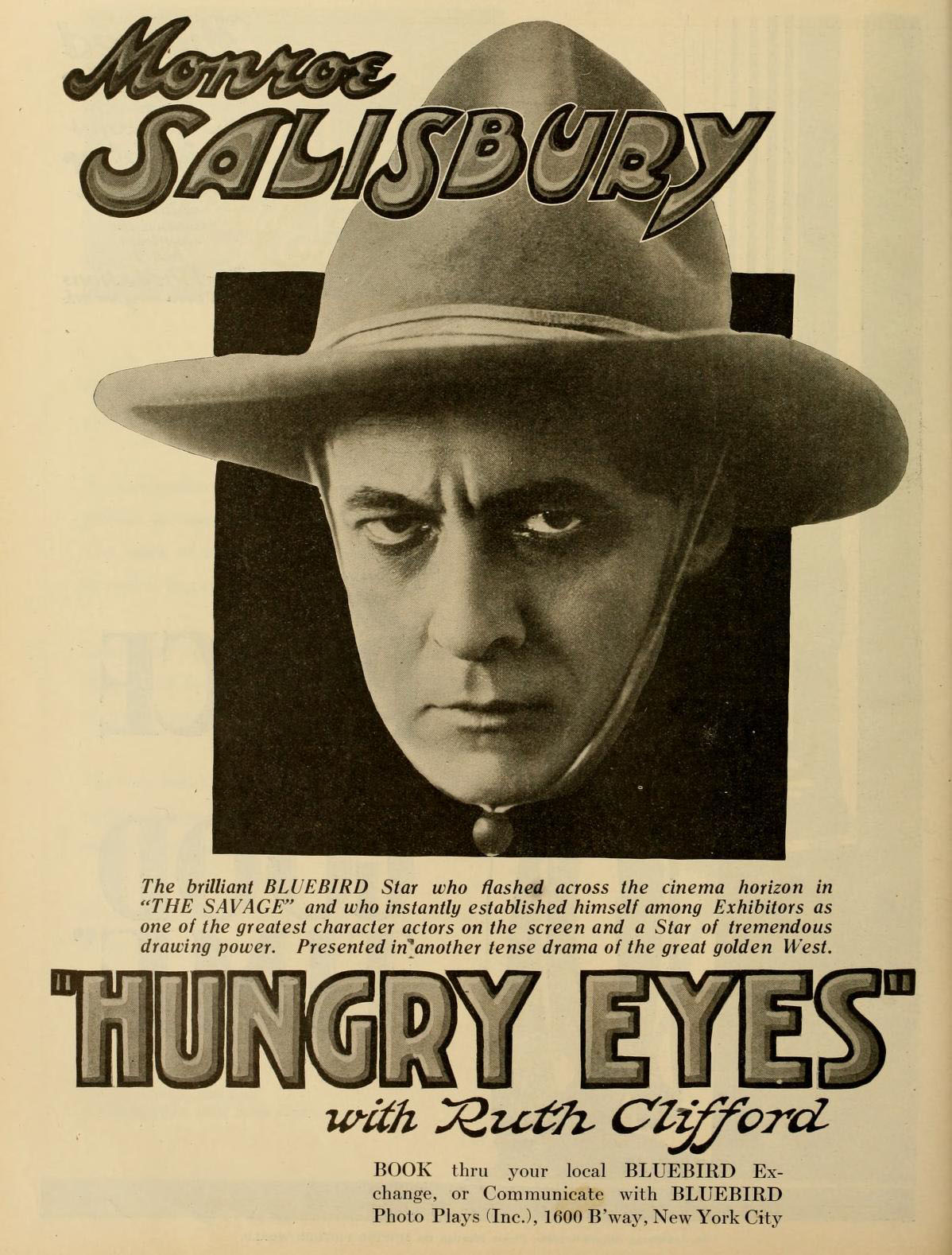 Advertisement in The Moving Picture World for the American western film Hungry Eyes (1918) with Monroe Salisbury.